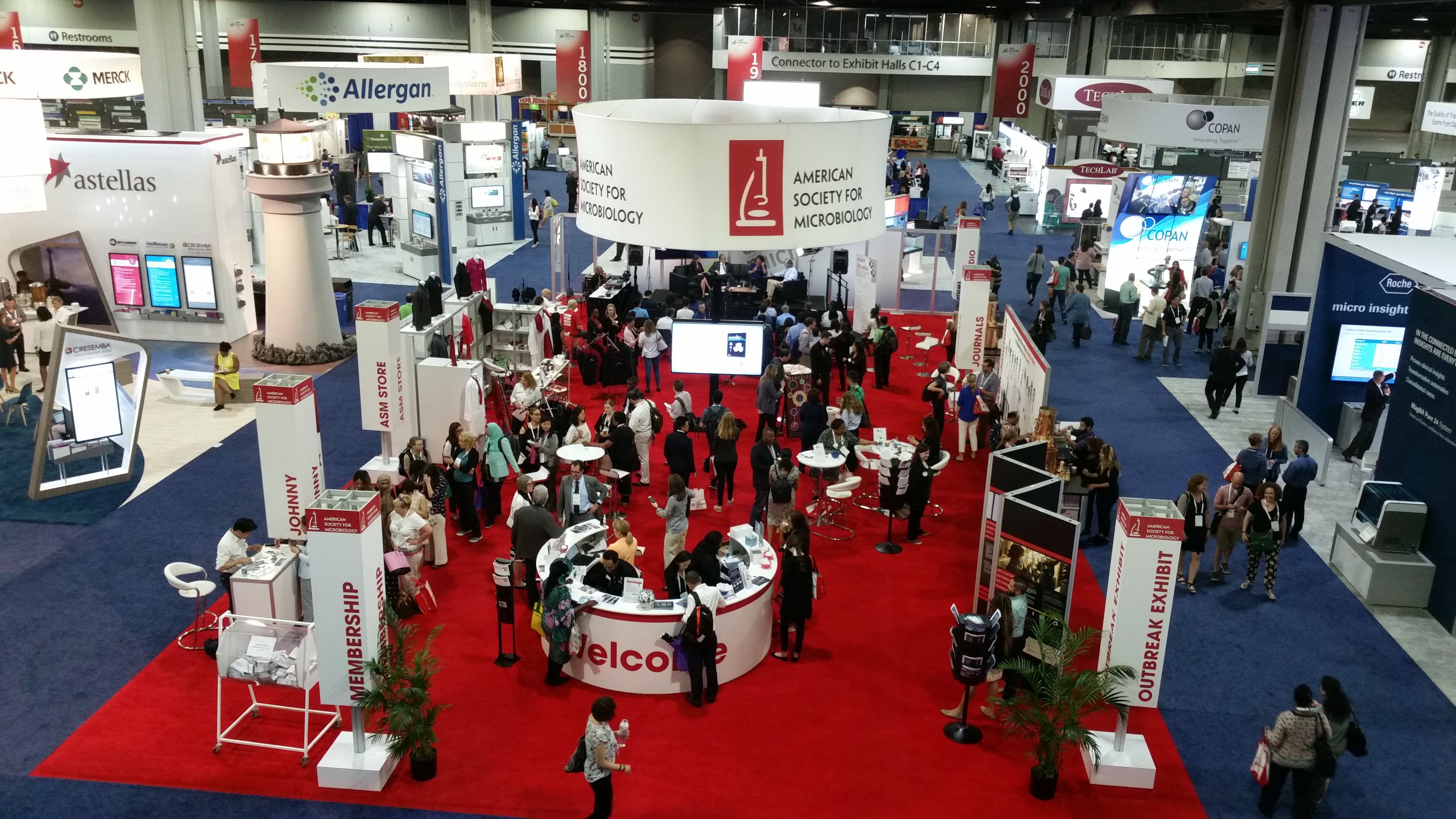 American Society for Microbiology meeting in Atlanta (2018)